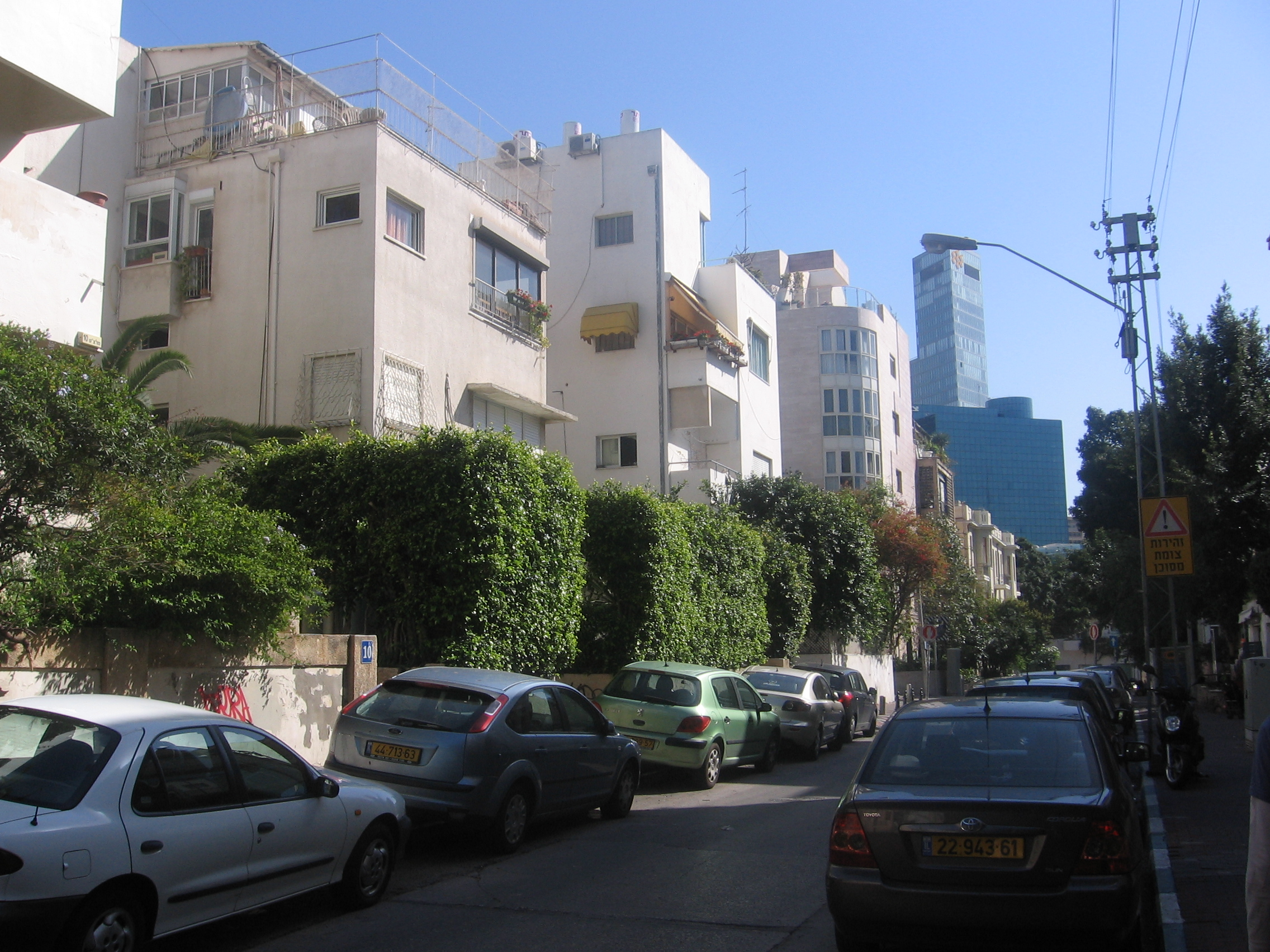 Melchet street in Tel Aviv.